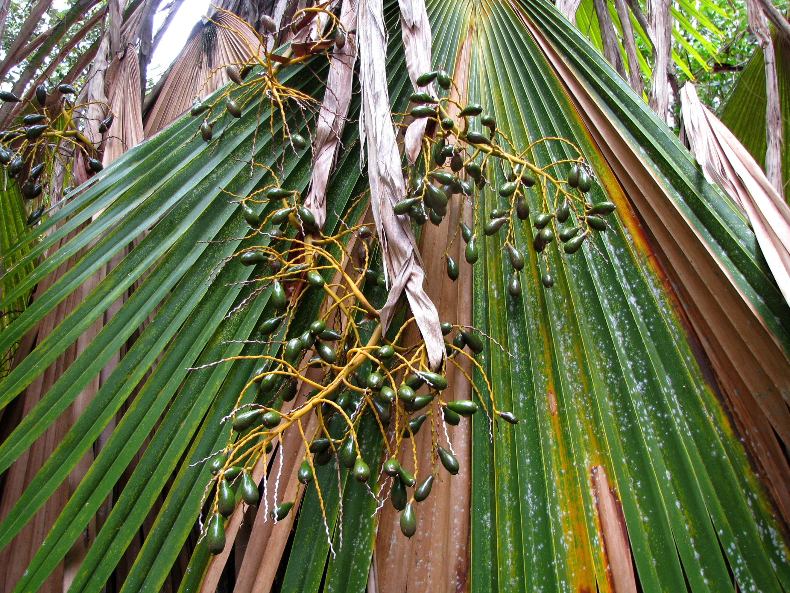 Loulu or Makaleha pritchardia Arecaceae Endemic to the Hawaiian Islands (Kauaʻi only) Rare Oʻahu (Cultivated)